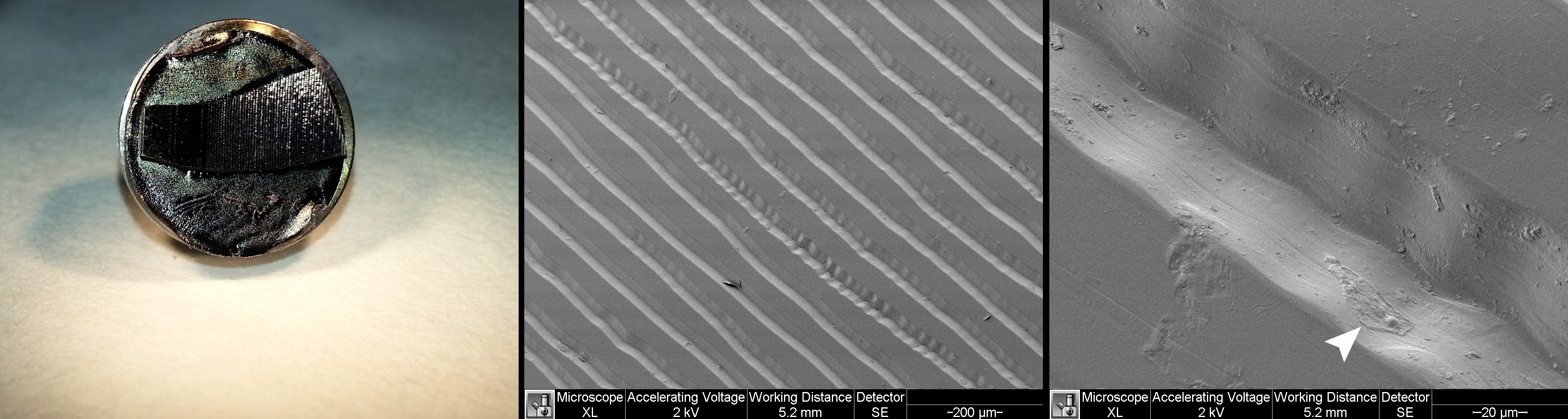 Scanning Electron Microscopy image of the record "je t'aime...moi non plus" with Jane Birkin and Serge Gainsbourg. To the left is shown a stub with a piece of the record mounted with double adhesive carbon tape and sputter coated with gold. To the right is shown two different magnifications of the surface. In the rightmost image note the epithelial cell (most likely from the mouth) sitting in the groove on the lefthand side (arrow). Imaged at the Core Facility for Integrated Microscopy, University of Copenhagen.